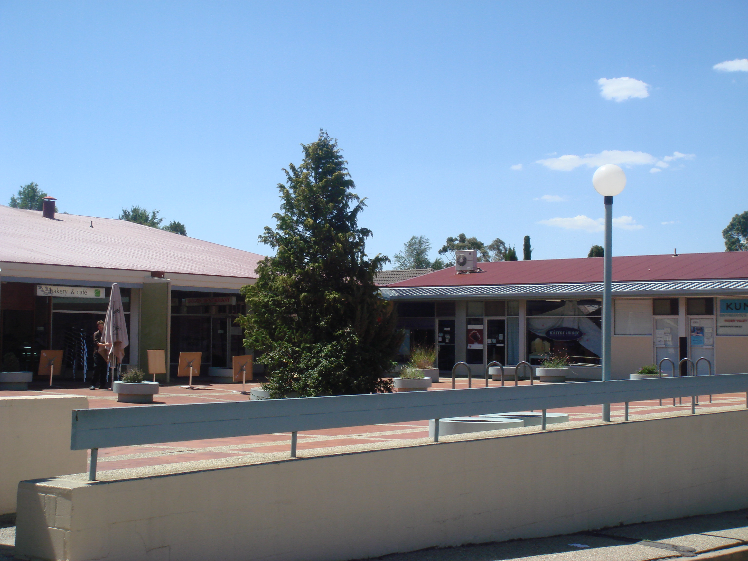 Shopping village in Pearce, Australian Capital Territory. Taken 20th January 2007. Photographer Details This photograph was taken by Korske.